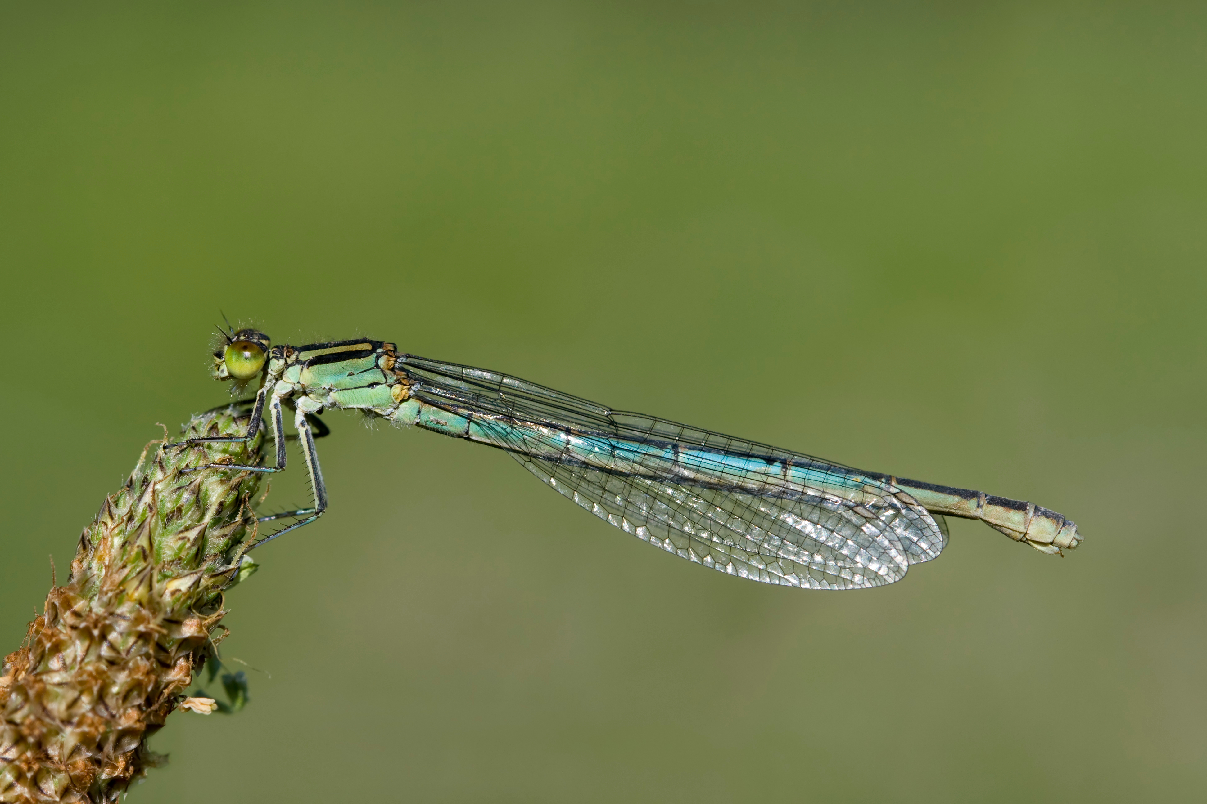 A female of the Goblet-marked Damselfly (Erythromma lindenii) at the Winklerbergsee, a lake between Breisach and Ihringen, southwestern Baden-Württemberg, Germany.